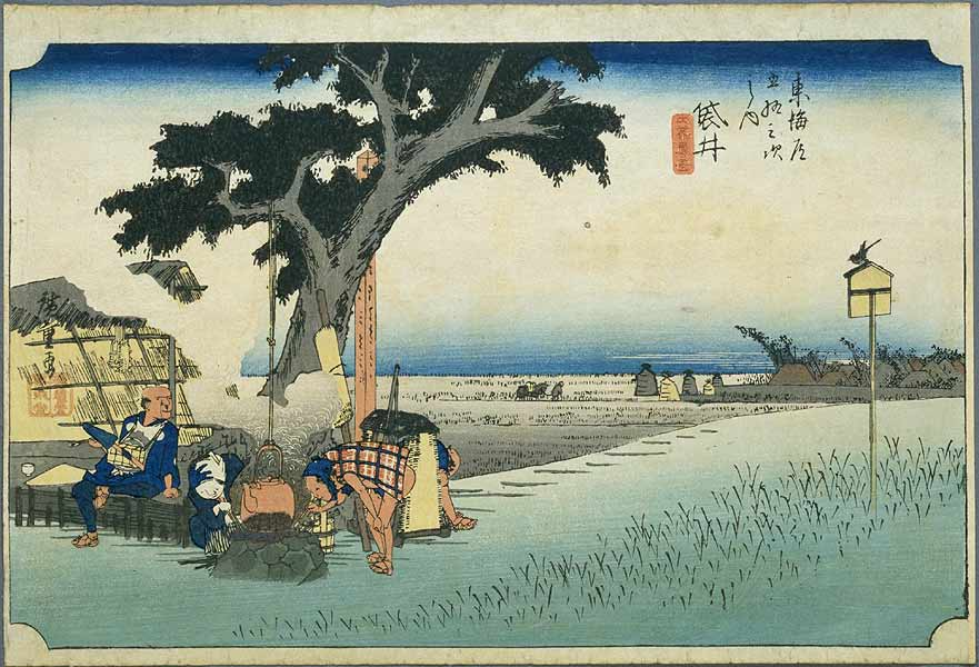 Fukuroi on the Tokaido, ukiyo-e prints by Hiroshige